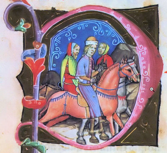 Andrew III of Hungary